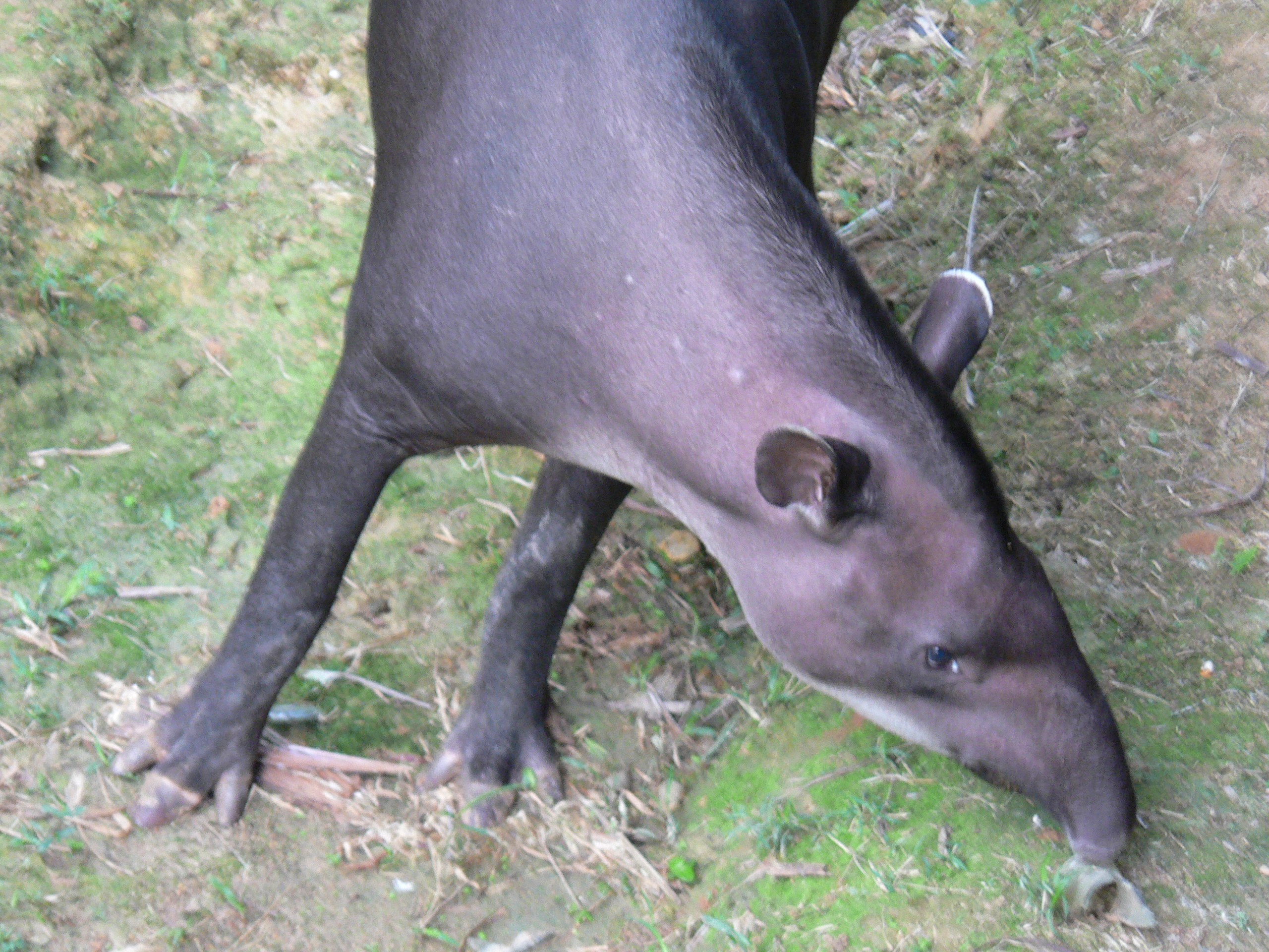 Brazilian tapir in Northern Peru. Photo by Bethany Callanan